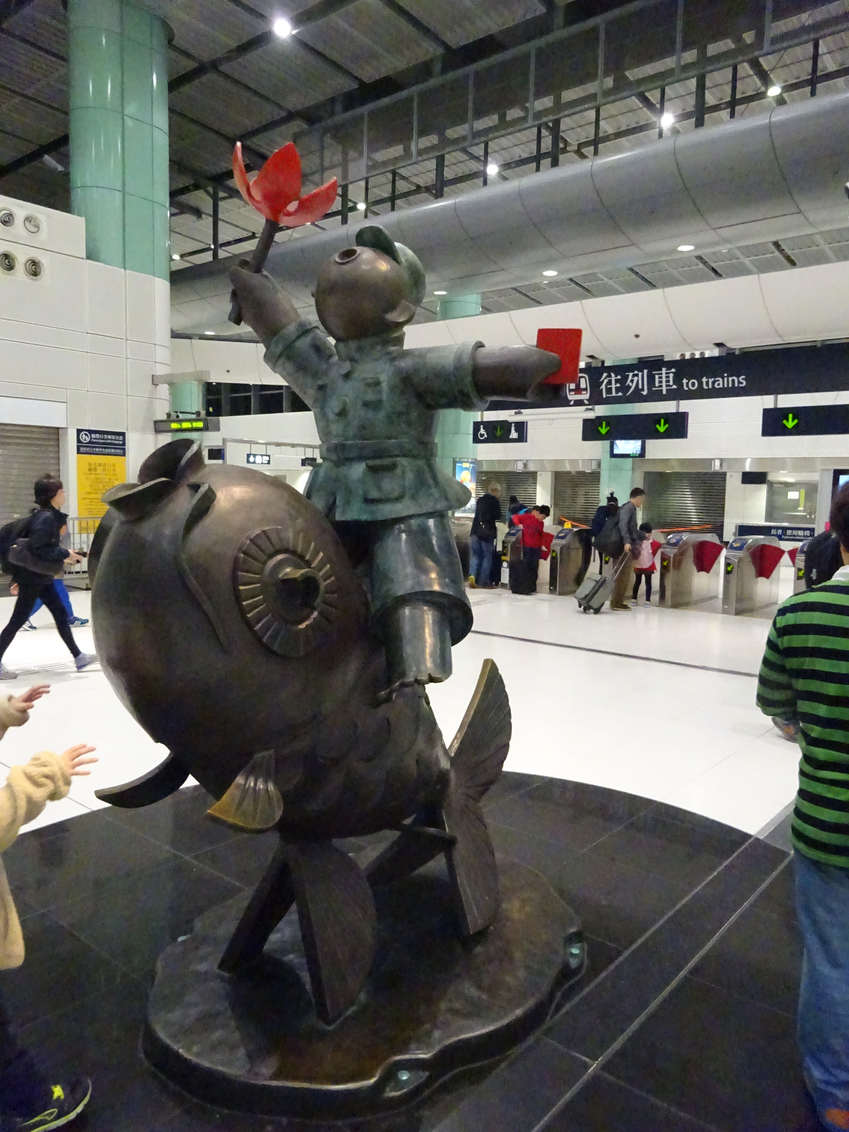 HK Lok Ma Chau MTR Station 落馬洲站 Bauhinia Rider sculpture Chinese Scuptor 蔣朔 Jiang Shuo Bronze statue March 2016 Concourse Level 3